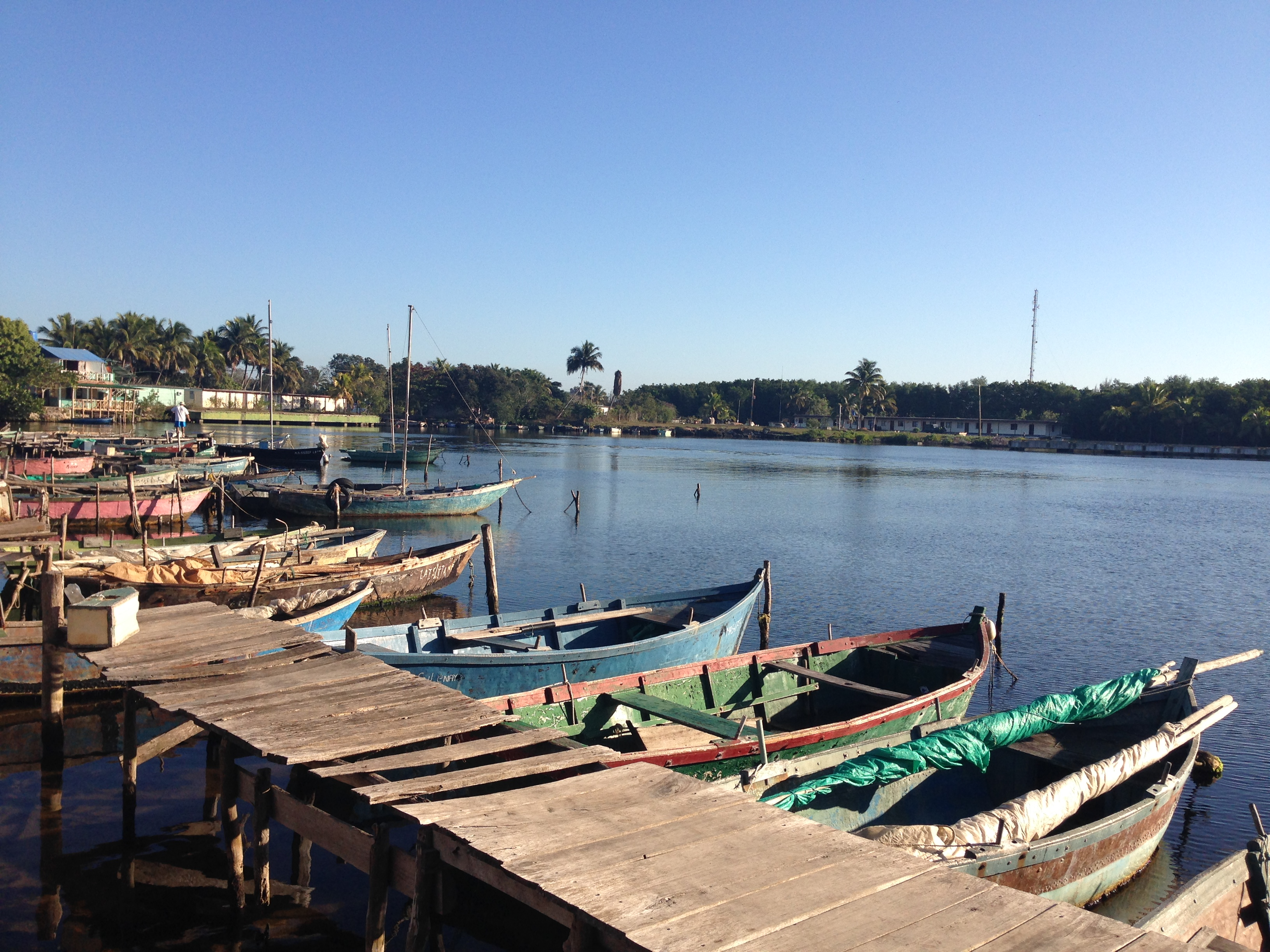 Boat dock in Playa Larga, Cuba